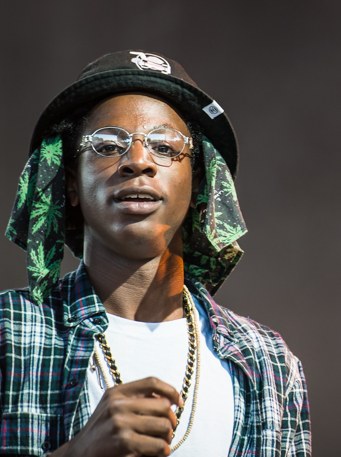 Joey Badass at The Come Up Show's 2013 Under the Influence Tour in Toronto